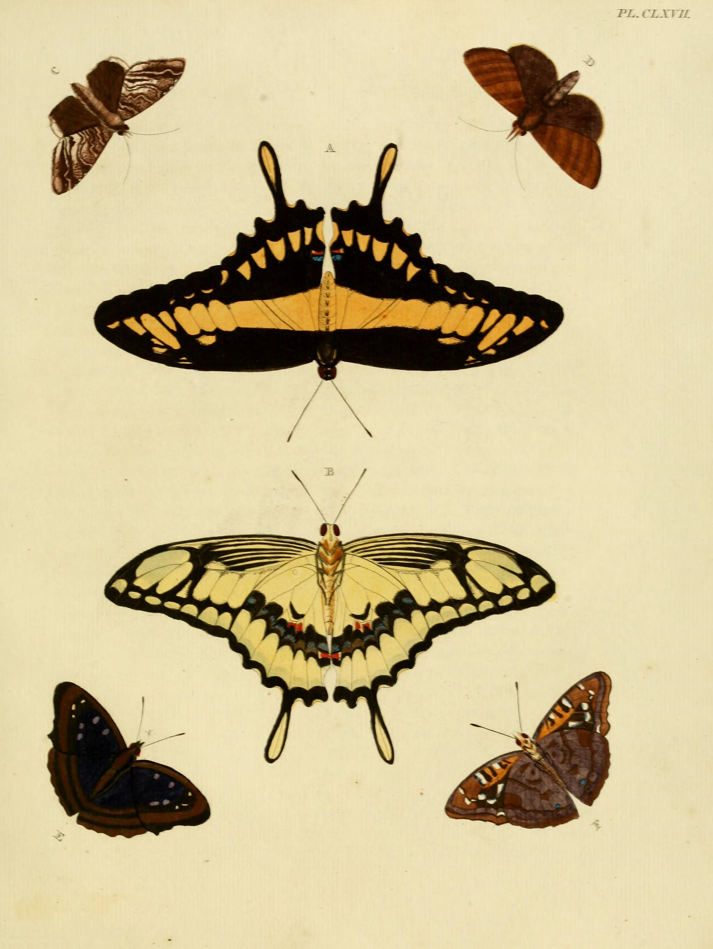 Plate CLXVII A, B: "(Papilio) Thoas" ( = Papilio thoas), see Funet. C: "(Phalaena) Capensis" ( = Acolasis capensis, iconotype?), see The Global Lepidoptera Names Index, NHM. D: "( = Phalaena) Tymber" ( = Ceromacra tymber, iconotype?), see The Global Lepidoptera Names Index, NHM. E, F: "(Papilio) Agathina" ( = Doxocopa agathina, iconotype?), see Funet and The Global Lepidoptera Names Index, NHM.